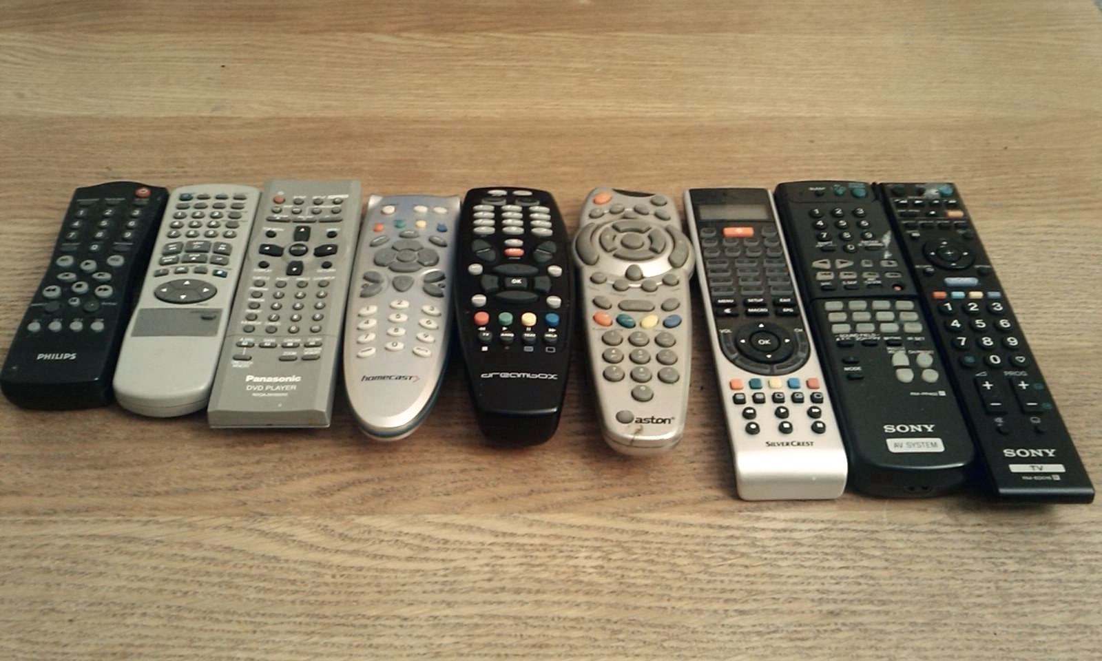 9 remote controls labeled as follows, from left to right: Philips, no label, Panasonic DVD player, homecast, dreambox, aston, SilverCast, Sony AV System, Sony TV.